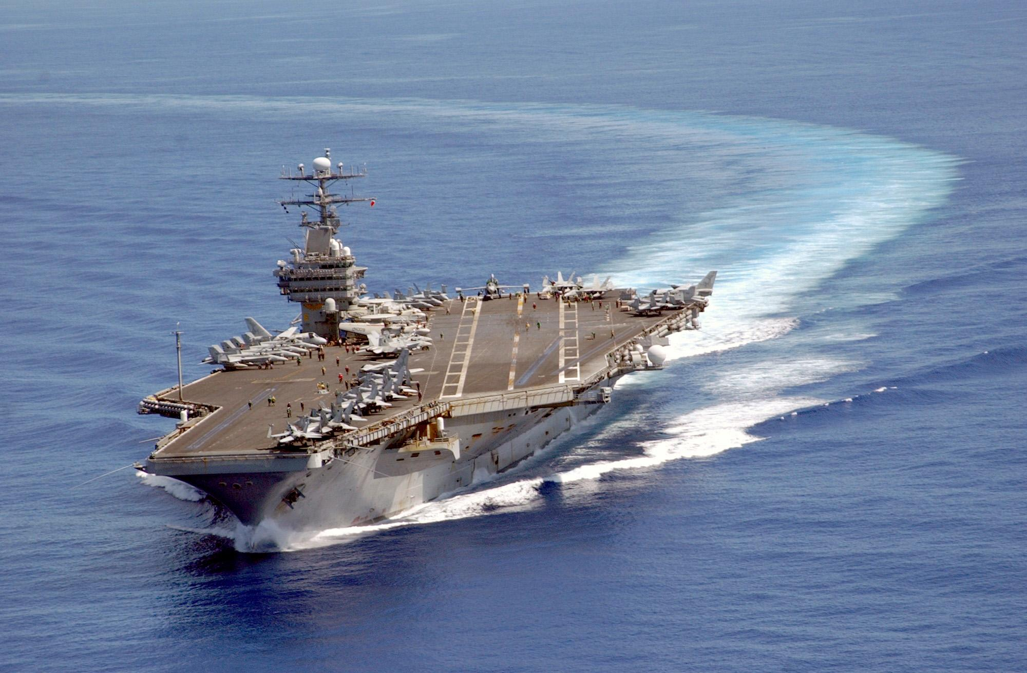 Original description: USS Carl Vinson on patrol in the Pacific 06/10/2003 SATTAHIP, Thailand -- Members of the Royal Thai Navy join sailors and officers from the U.S. Navy Cooperation Afloat Readiness and Training (CARAT) task group during the opening ceremony. CARAT, a regularly scheduled series of bilateral military training exercises between the U.S. Navy/U.S. Marine Corps team and counterparts from several Association of Southeast Asian Nations (ASEAN) countries, is designed to enhance interoperability between the participating nations. (Official U.S. Navy photo by Lt. Chuck Bell.)